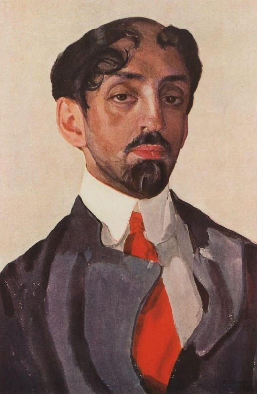 Konstantin Somov (1869-1939). Portrait of Mikhail Kuzmin, from the Tretyakov Gallery (1909).